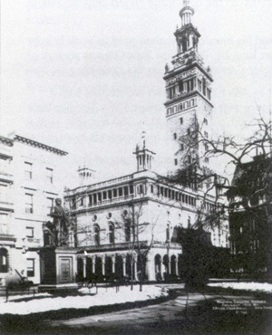 Photograph of the second Madison Square Garden, built in 1890, located near Madison Square in Manhattan, New York City. Designed by Stanford White.